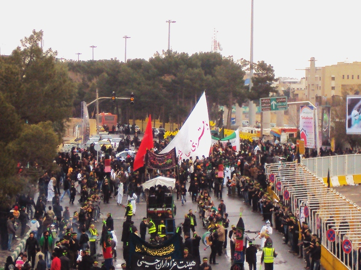 مراسم عزاداری روز تاسوعای حسینی در قم